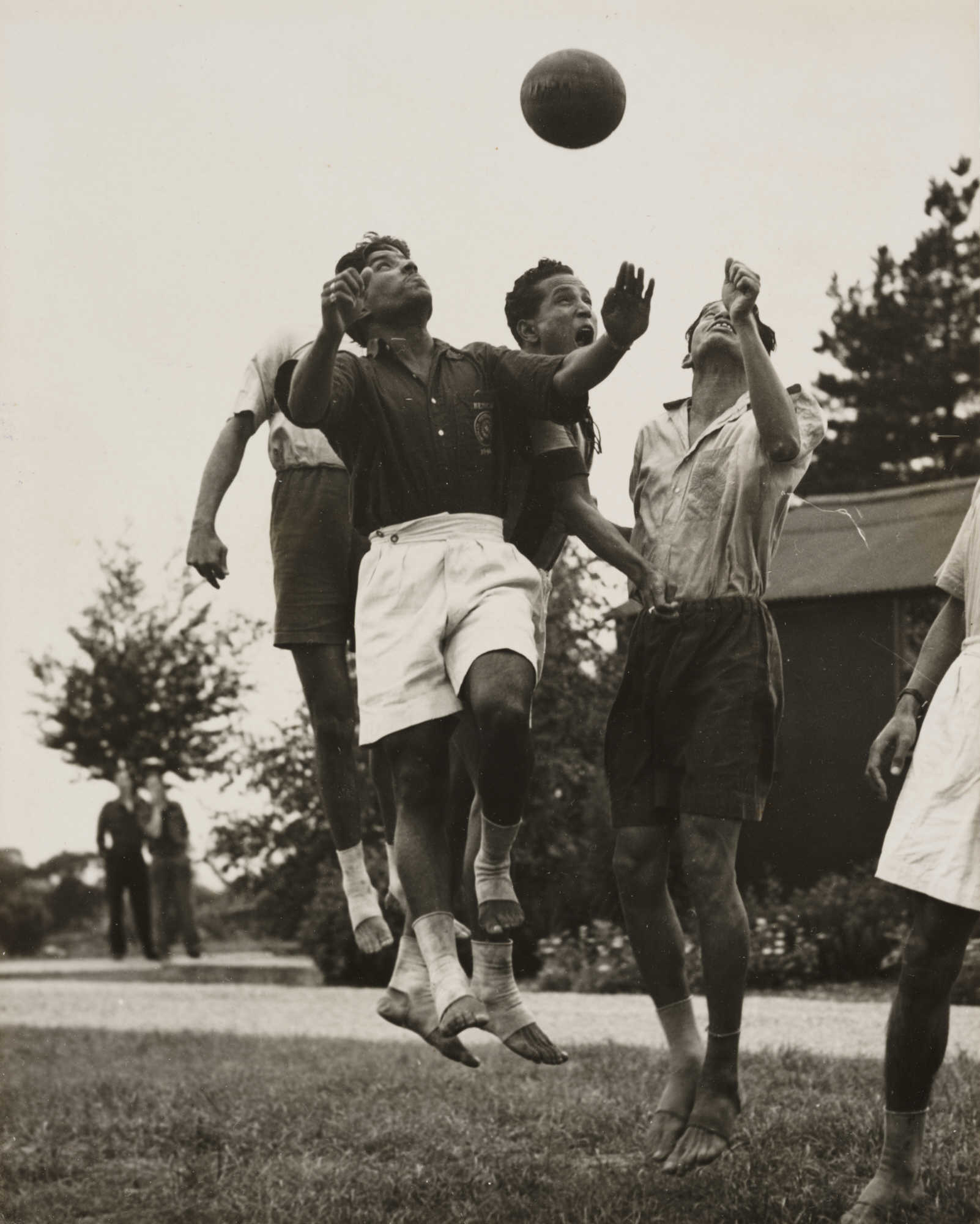 The Indian Football Team training in Richmond Park Olympic Camp. They proposed to play bare-footed if the weather was dry enough. Daily Herald Archive at the National Media Museum